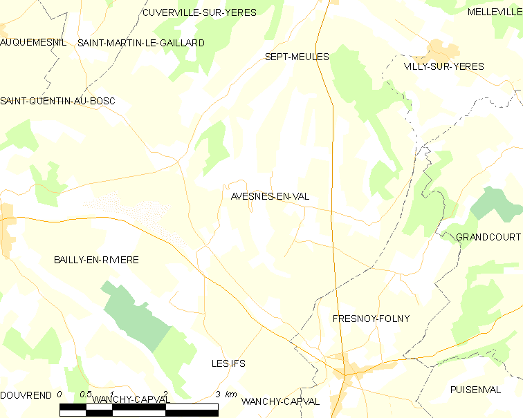 Map of French municipality Avesnes-en-Val